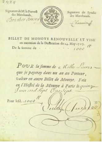 Billet de Monoye (1707): Billet de monnaie (in modern french)